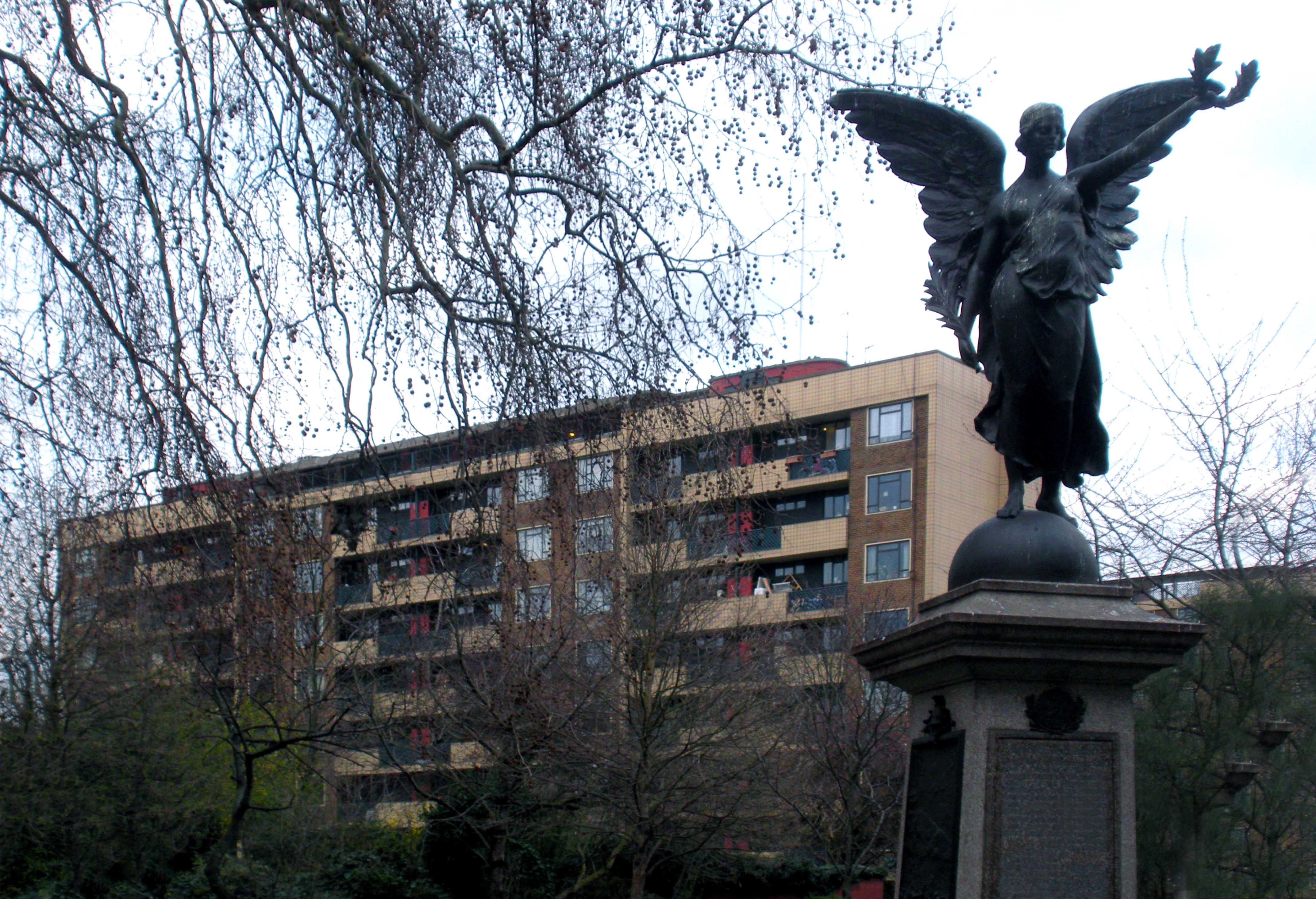 Spa Green park, with war memorial, flanks the approach to Spa Green Estate